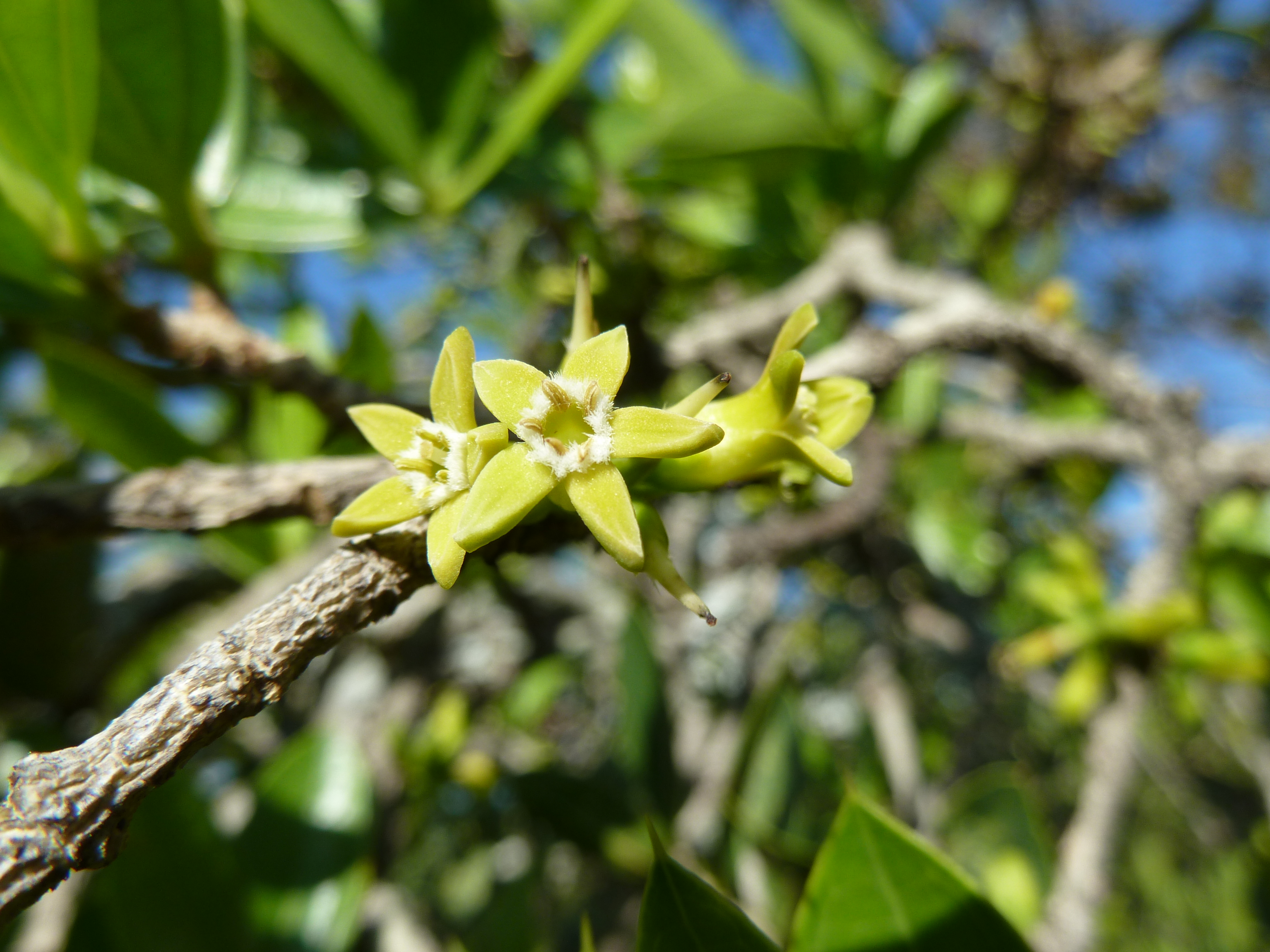 Flowers of a Spine-leaved monkey-orange at Seringveld near Pretoria